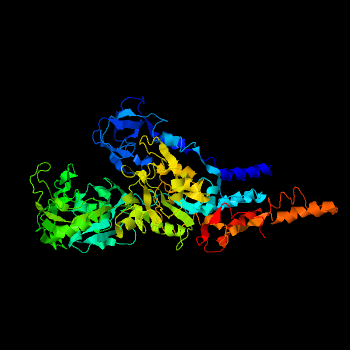 This is a visual representation of the physical structure of c17orf53